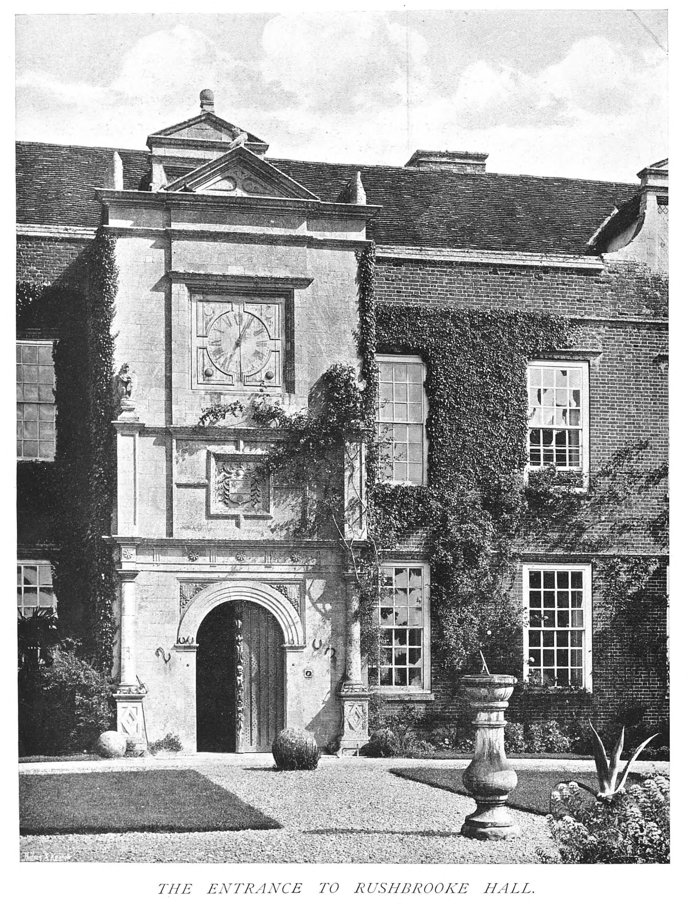 Rushbrooke Hall Suffolk the entrance. From In English Homes. Full text of the book is available at the Internet Archive: Volume 1; Volume 2; Volume 3.